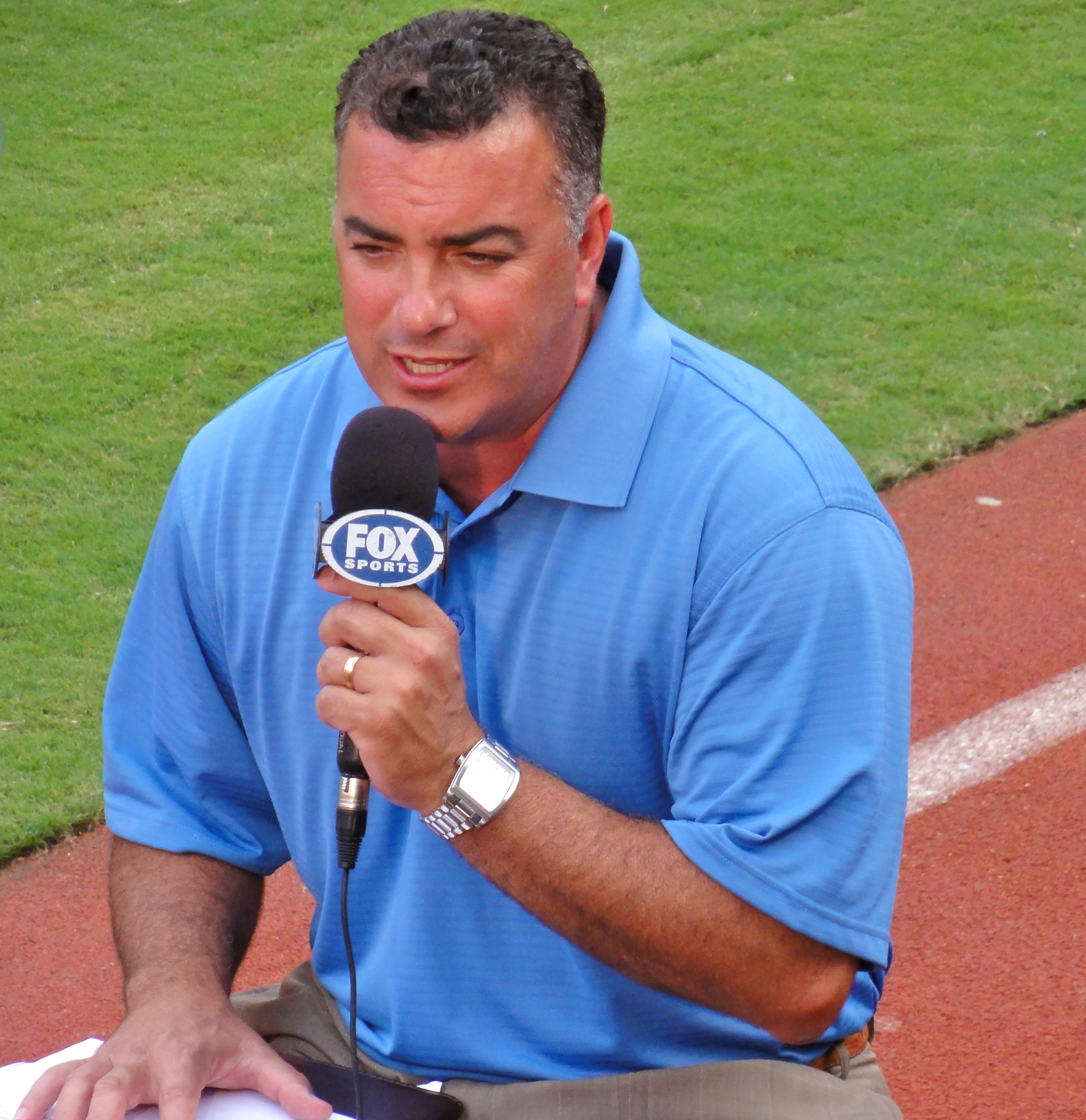 FOX Sports Ohio reporter Jeff Piecoro at Sun Life Stadium before a Reds - Marlins game, 2011.